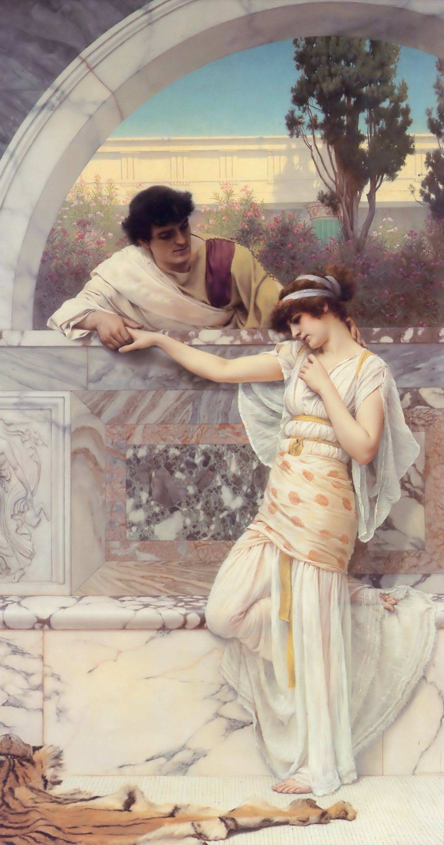 Yes or No